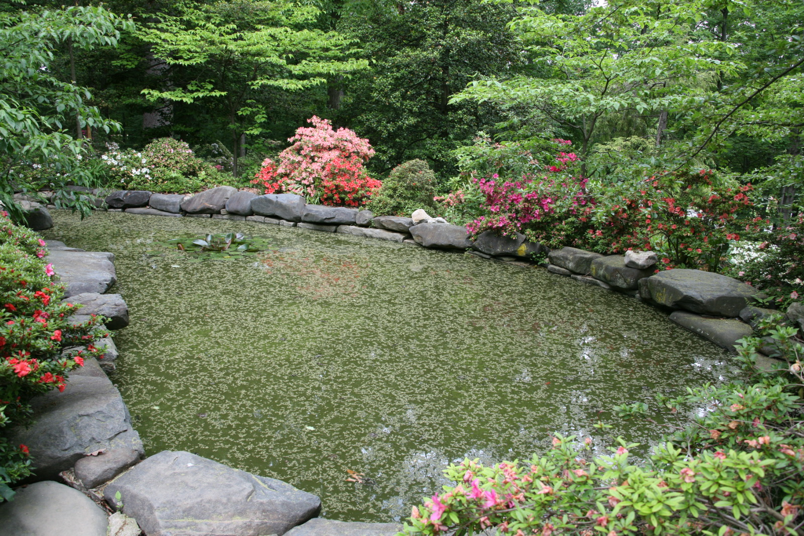 Late blooming azaleas planted near the pond extend the azalea season into May and early June. The Lee Garden is arranged with different areas devoted to major varietal groups of azaleas that can be grown in the Washington area. The Henry Mitchell Walk, named in honor of the revered Washington Post garden writer, traverses the Lee Garden and tells the story of the development of these groups of hybrid azaleas. The diversity of colors and forms in the Lee Garden includes everything from low ground-hugging Satsuki azaleas with diminutive leaves and large blooms to bold upright deciduous native azaleas with smaller, more delicate flowers.